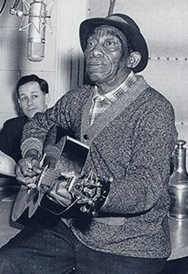 A crop of a photo showing John Hurt giving a recording for the Library of Congress, 1964. Joseph C. Hickerson seen in background.